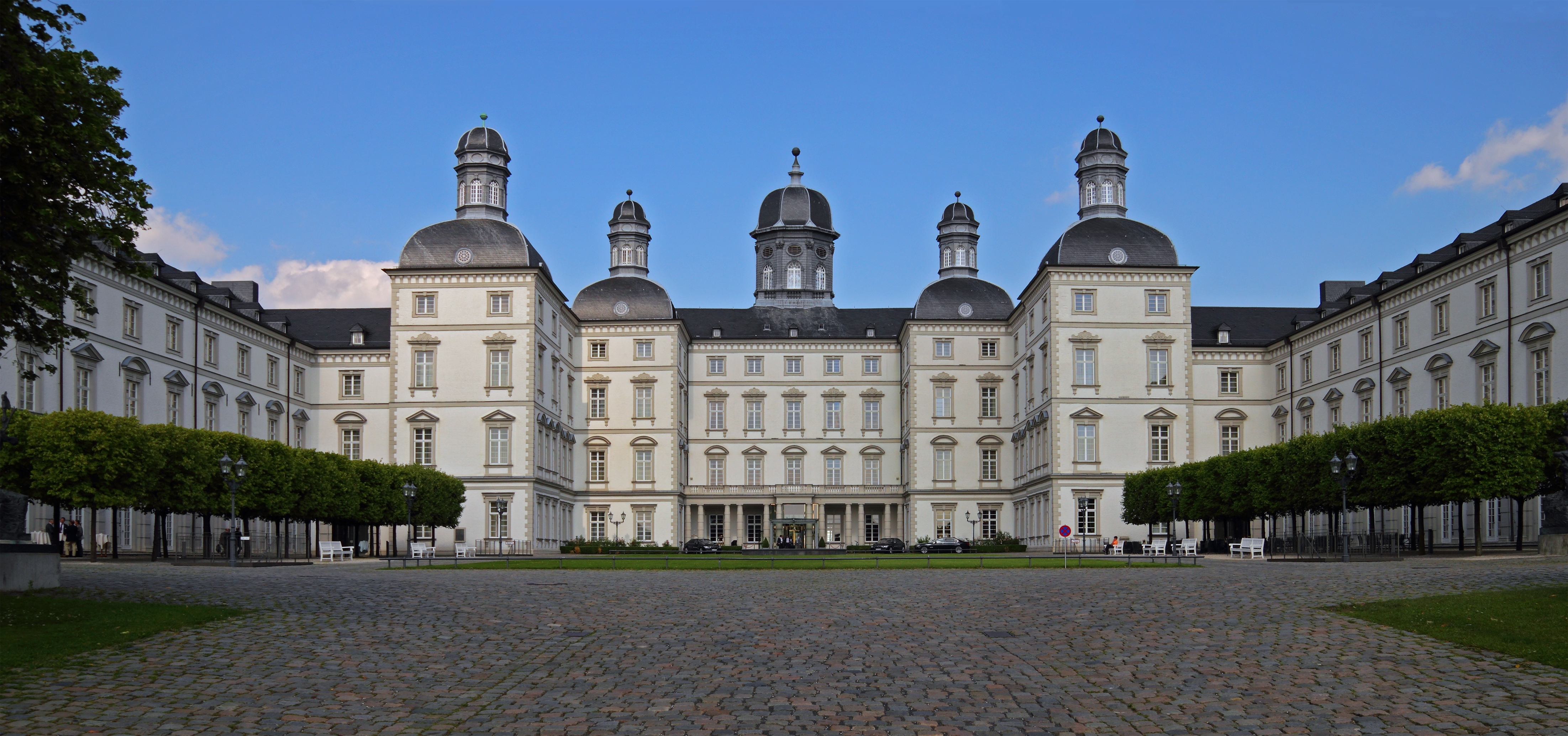 Bensberg Castle in Bergisch Gladbach, Germany